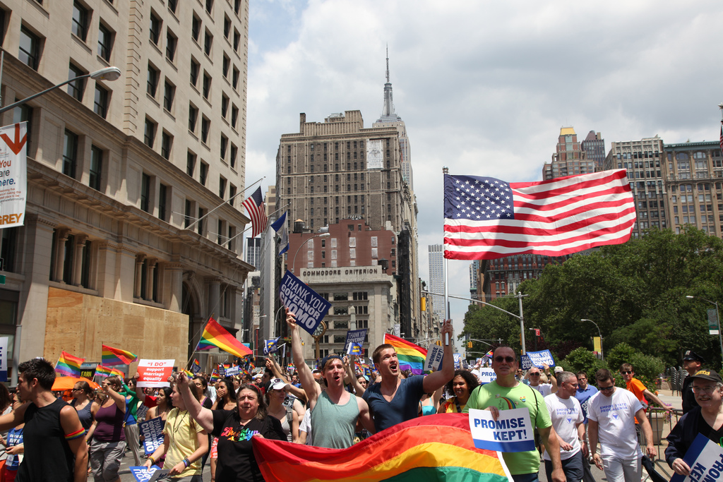 video Dear Sasha, I have really enjoyed your photographs of the Gay Pride march. It very much reminded me of the time Ed and I went to watch it, gay rights have come so far in recent years but unfortunately the USA is lagging behind England, we now have full protection of the law against discrimination in employment and service provision and we can marry. Me and Ed have been together for 27 years and we married in 2006 as soon as it became legal. Whilst I was looking for your photographs I saw one entitled " Morning in a city ", it is beautiful, I love New York and this picture is just such a wonderful portrayal of both the model and the city buildings. You have a wonderful talent. Love, Peter.